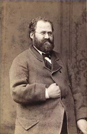 Danish businessman Philip Wulff Heyman (1837-1893), successful CEO of Tuborg Breweries.